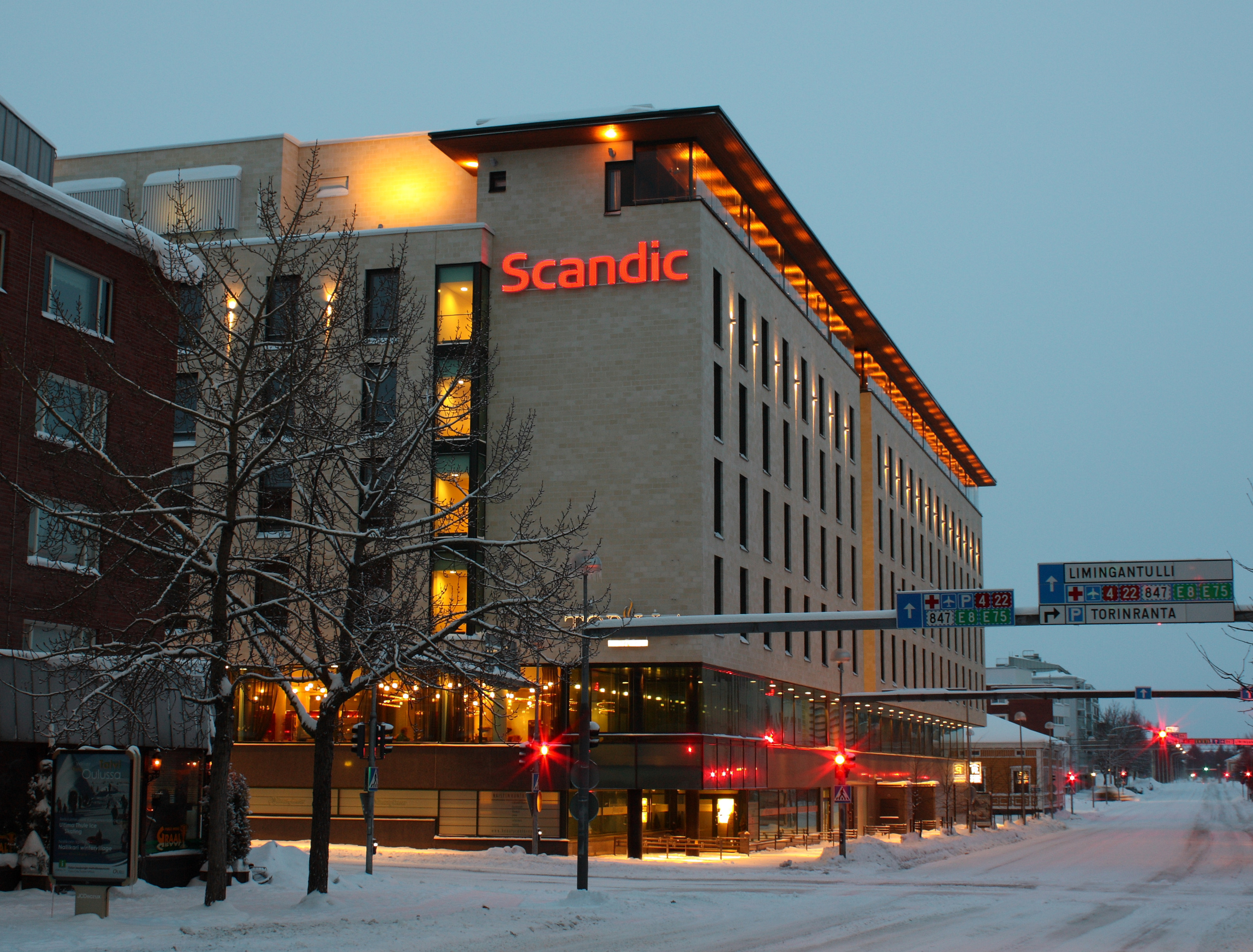 Scandic Oulu hotel. Hotel was designed by architects Paldanius&Teppo and built in 2007.